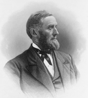 Former United States Representative from Maryland Charles Edward Coffin.